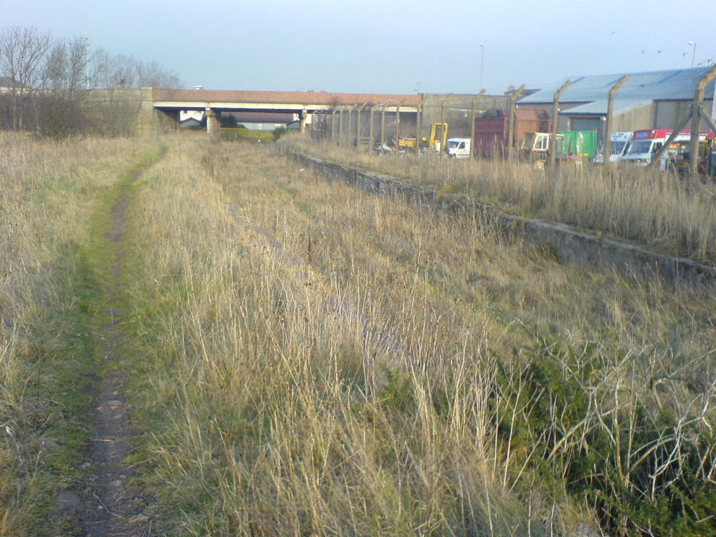 Remains of platforms at Ardrossan North station in early 2006. Photo by Dreamer84.